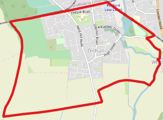 Map of the East Retford South ward of Bassetlaw. This map may be incomplete, and may contain errors. Don't rely solely on it for navigation.